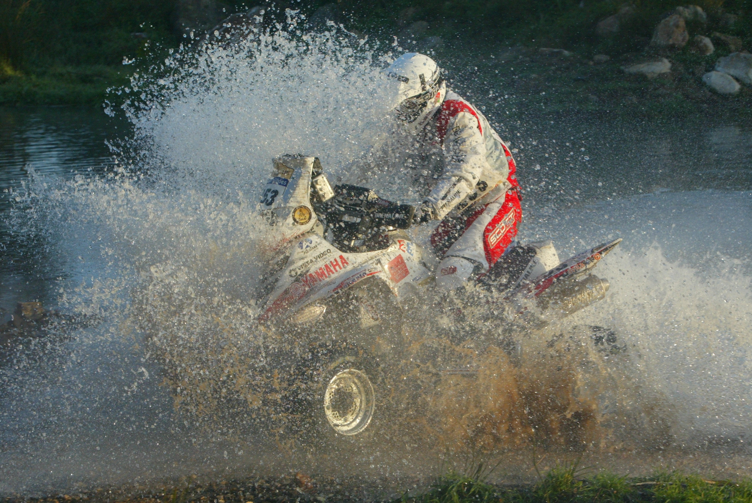 Rally Dakar Argentina-Chile-Argentina